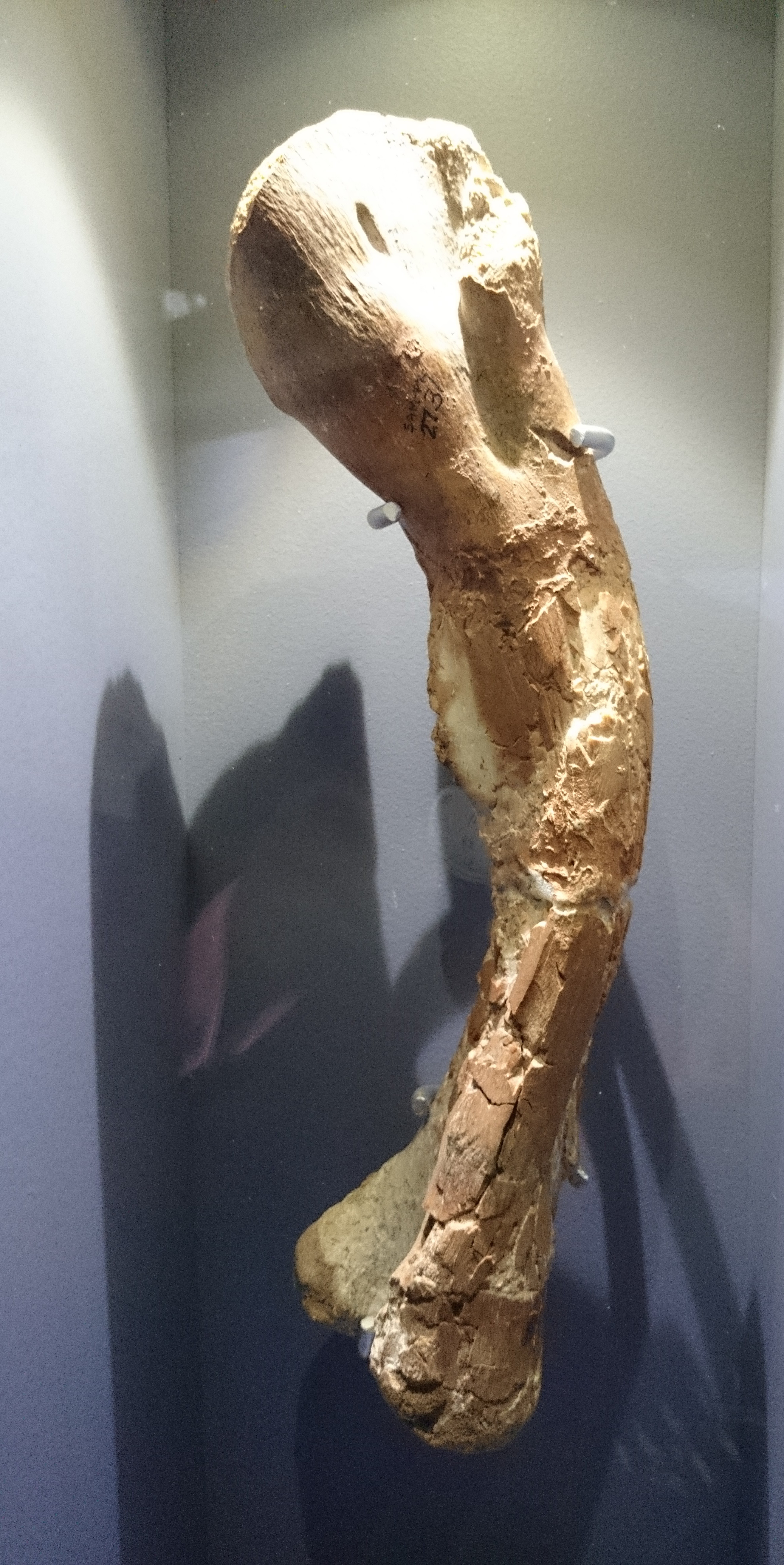 Thigh bone of kangnasaurus, a large ornithopod dinosaur that lived in the Northern Cape around 120 Mya